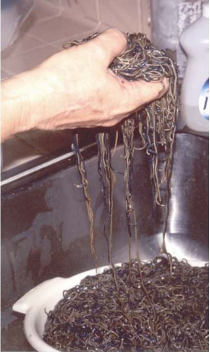 "A good catch of palolo."